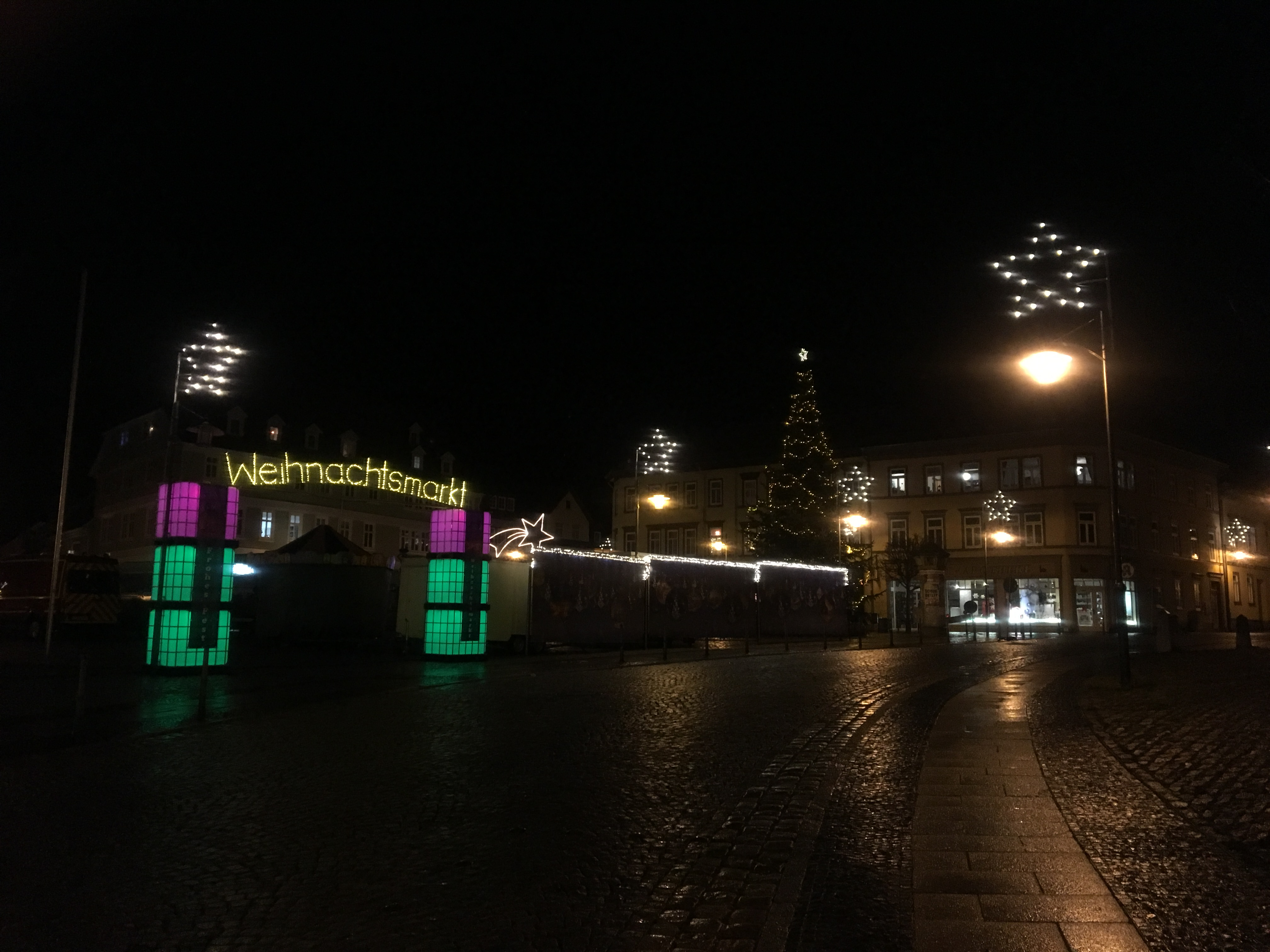 The front gate of the annual Christmas market in Waltershausen.